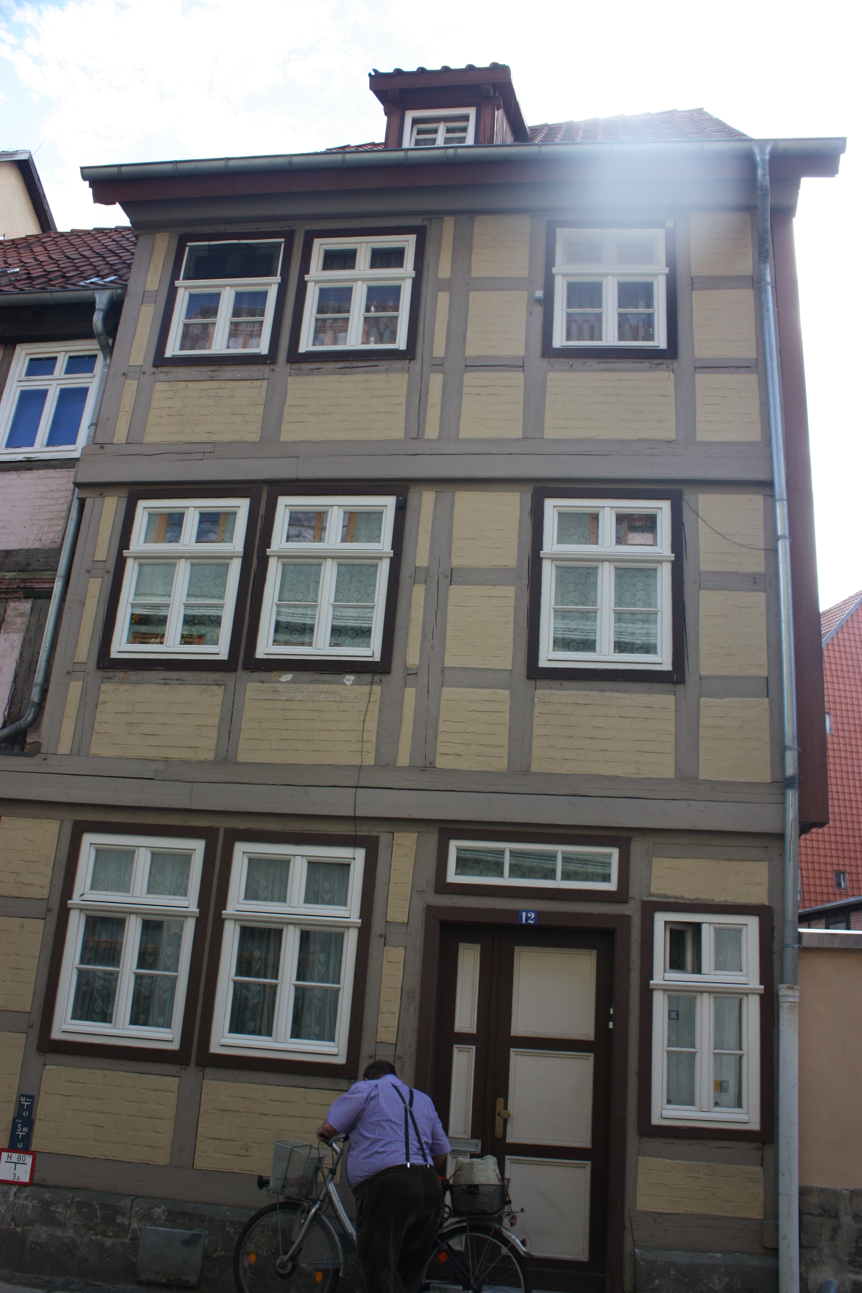 This is a photograph of an architectural monument.It is on the list of cultural monuments of Quedlinburg Hohe Straße 12